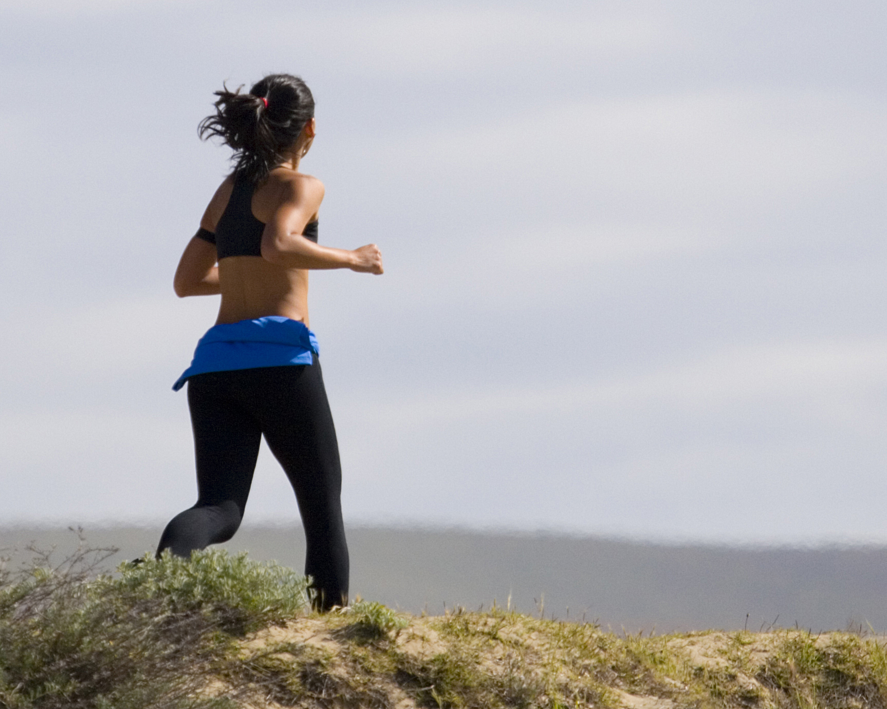 Female Jogger on Coleman Avenue in Morro Bay, CA